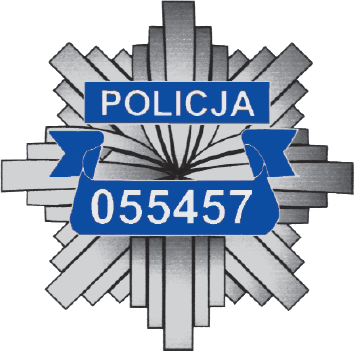 The badge of Polish Police